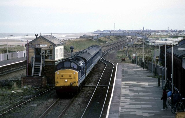 This train does not stop here Heading west a non stop service heads through Abergele station.